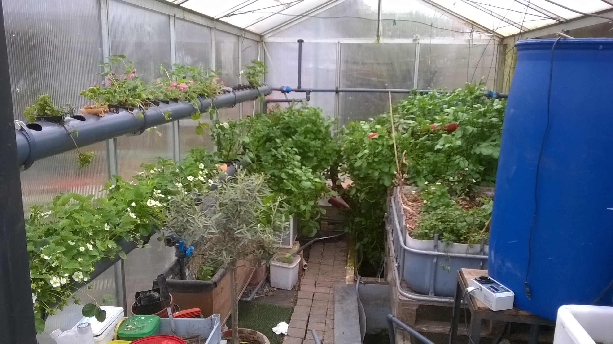 small combined greenhouse aquaponics system